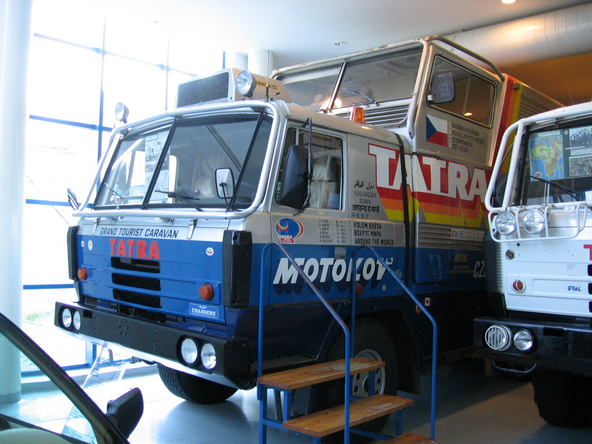 Tatra 815 GTC (Grand Tourist Caravan) from the expedition Tatra kolem světa (Tatra around the world)